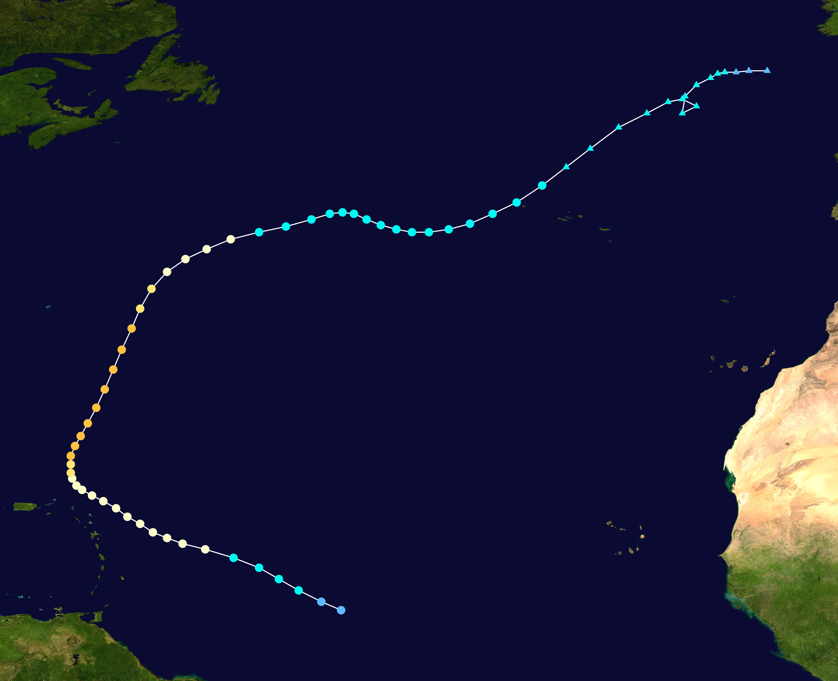 Track map of Hurricane Erika of the 1997 Atlantic hurricane season. The points show the location of the storm at 6-hour intervals. The colour represents the storm's maximum sustained wind speeds as classified in the Saffir–Simpson scale (see below), and the shape of the data points represent the nature of the storm, according to the legend below. Saffir–Simpson scale Tropical depression≤38 mph≤62 km/h Category 3111–129 mph178–208 km/h Tropical storm39–73 mph63–118 km/h Category 4130–156 mph209–251 km/h Category 174–95 mph119–153 km/h Category 5≥157 mph≥252 km/h Category 296–110 mph154–177 km/h Unknown Storm type Tropical cyclone Subtropical cyclone Extratropical cyclone / Remnant low / Tropical disturbance / Monsoon depression